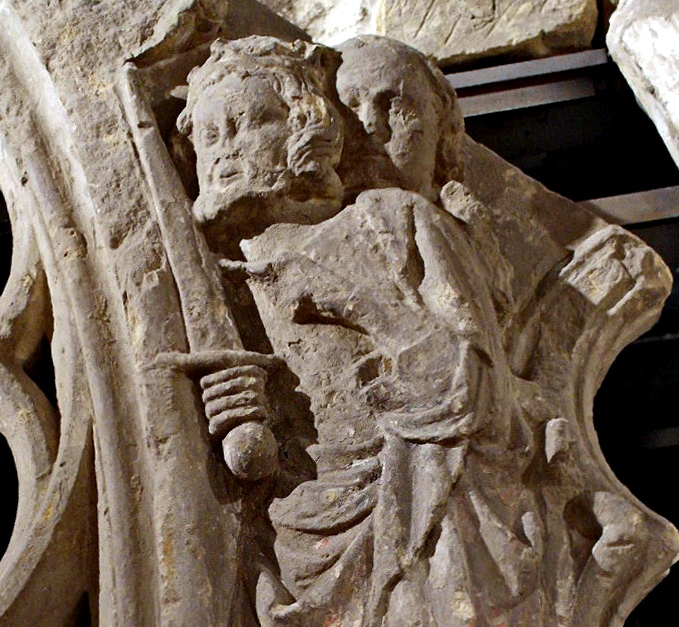 Fragment of a former Gothic rood screen, now in the East Crypt lapidarium of the Basilica of Saint Servatius in Maastricht, the Netherlands. The rood screen (doksaal), sculpted around 1300 of local limestone, once stood in front of the east choir, where it seperated the area reserved for the canons from the public areas of the church. It depicted scenes from the life of Saint Servatius, the patron saint of the church, but its exact shape is unknown. This particular fragment shows Attila the Hun (who was later baptized by Saint Servatius) and a companion. In front of the screen stood an altar with a life-size statue of the saint. The screen was demolished in 1732 and fragments were burried underneath the church floor, where they were discovered in 1915.